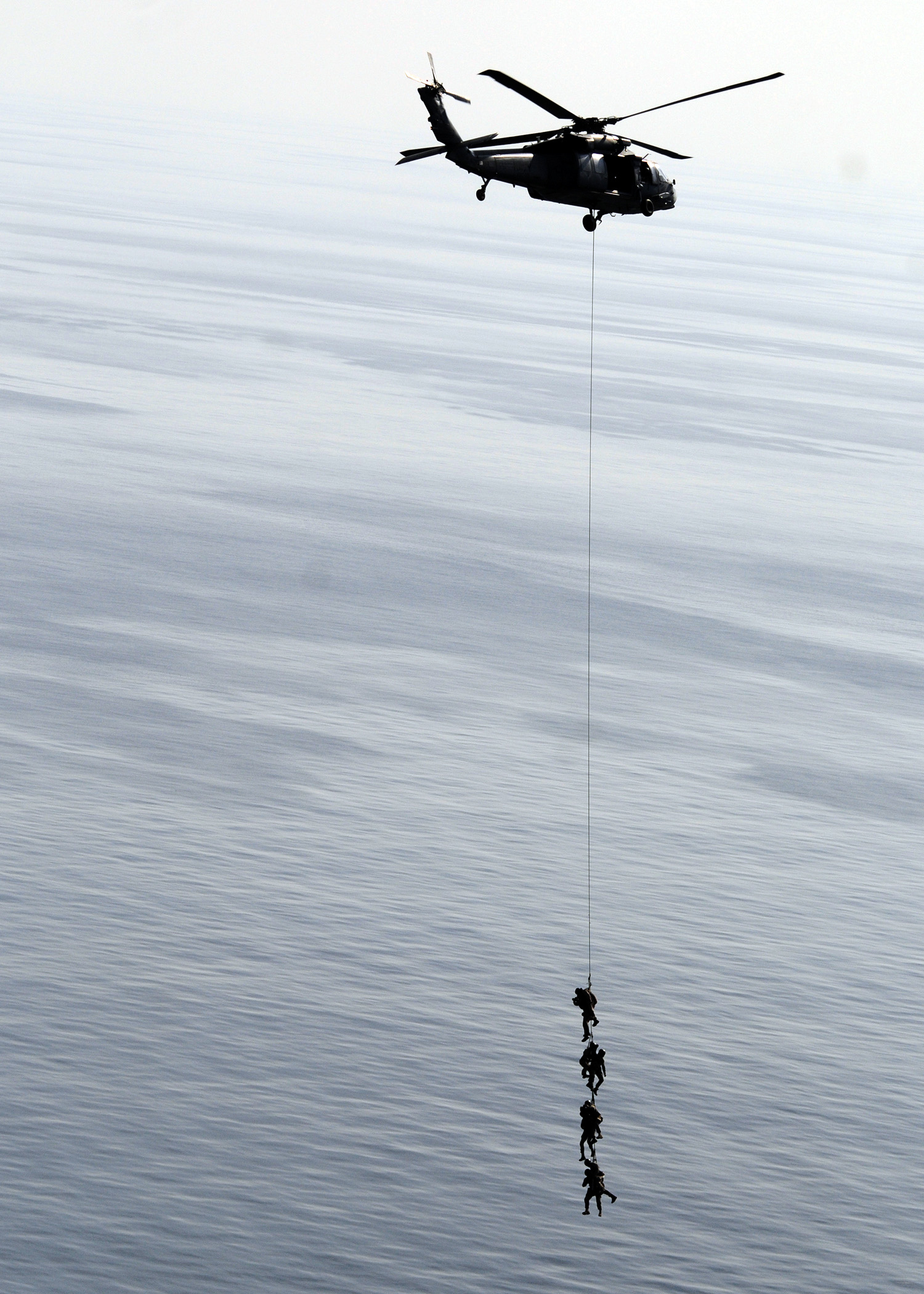 081107-N-7918H-742 GULF OF OMAN (Nov. 7, 2008) Sailors assigned to Explosive Ordnance Disopsal (EOD) Platoon 222 perform a special patrol insertion and extraction exercise from the Military Sealift Command fast combat support ship USNS Supply (T-AOE 6). EOD Platoon 222 is embarked aboard the Nimitz-class aircraft carrier USS Theodore Roosevelt (CVN 71) and is operating in the U.S. 5th Fleet area of responsibility. U.S. Navy photo by Mass Communication Specialist 3rd Class John K. Hamilton/Released)